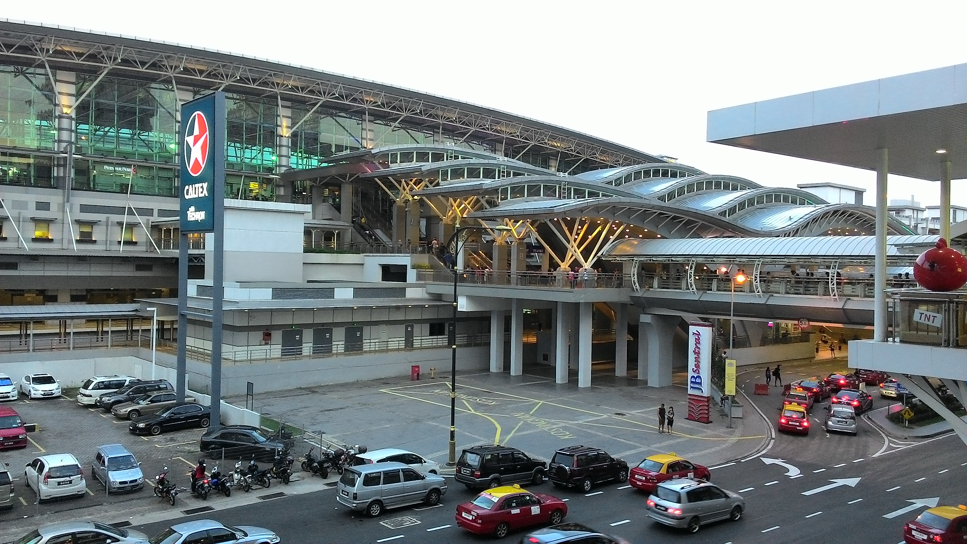 JB Sentral sign and entrance. Photo taken across the road, on the pedestrian bridge linking the station with the JB City Square and Komtar JBCC shopping malls